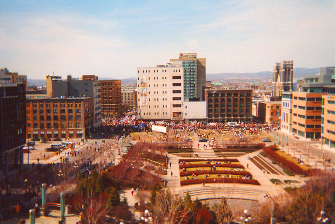 Quebec City's Lower Town seen from Saint-Réal St. (Upper Town) during Summit of the Americas protests and demonstrations in April 2001.